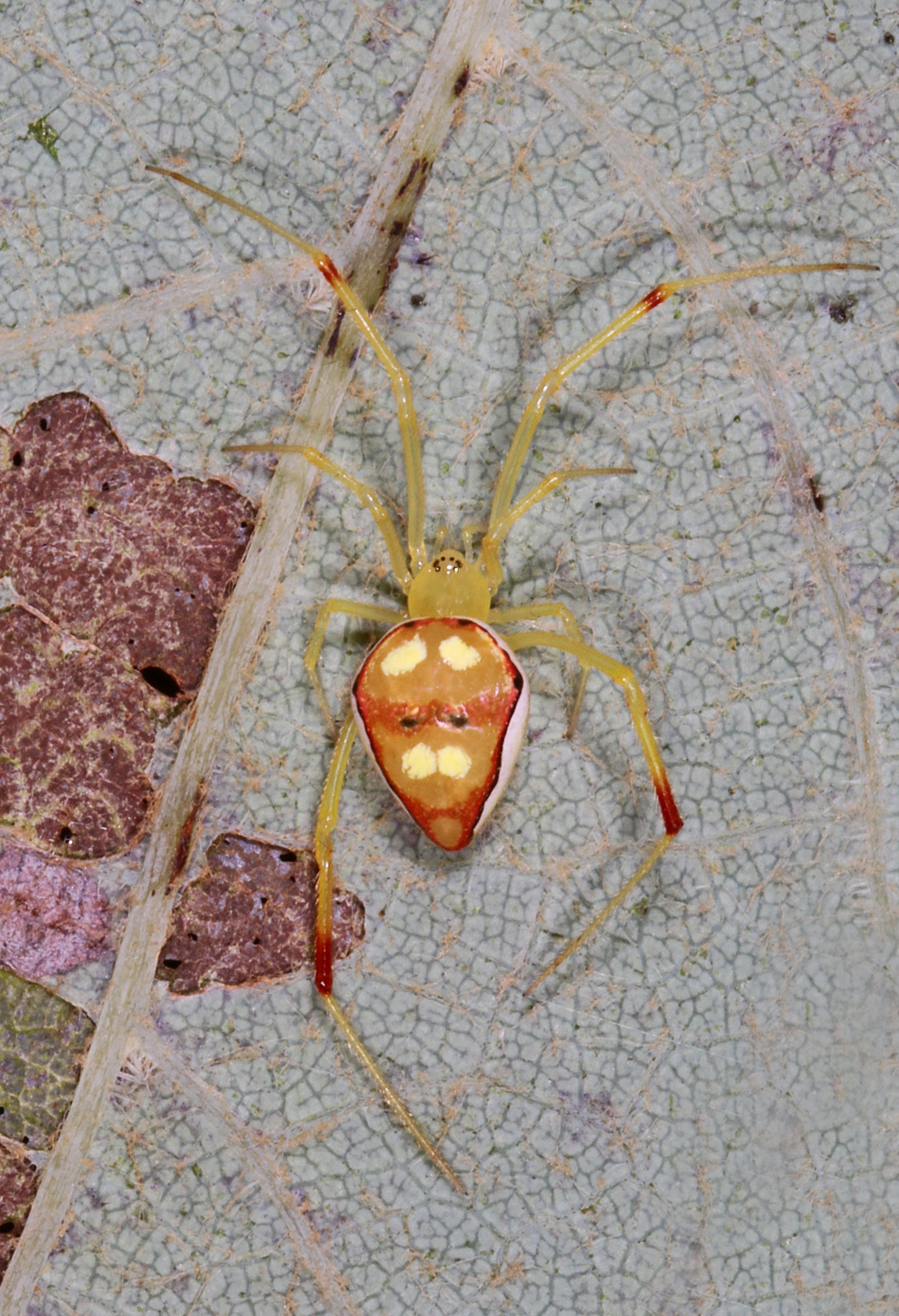 Cobweb Spider - Spintharus flavidus, Catoctin Mountains, Maryland